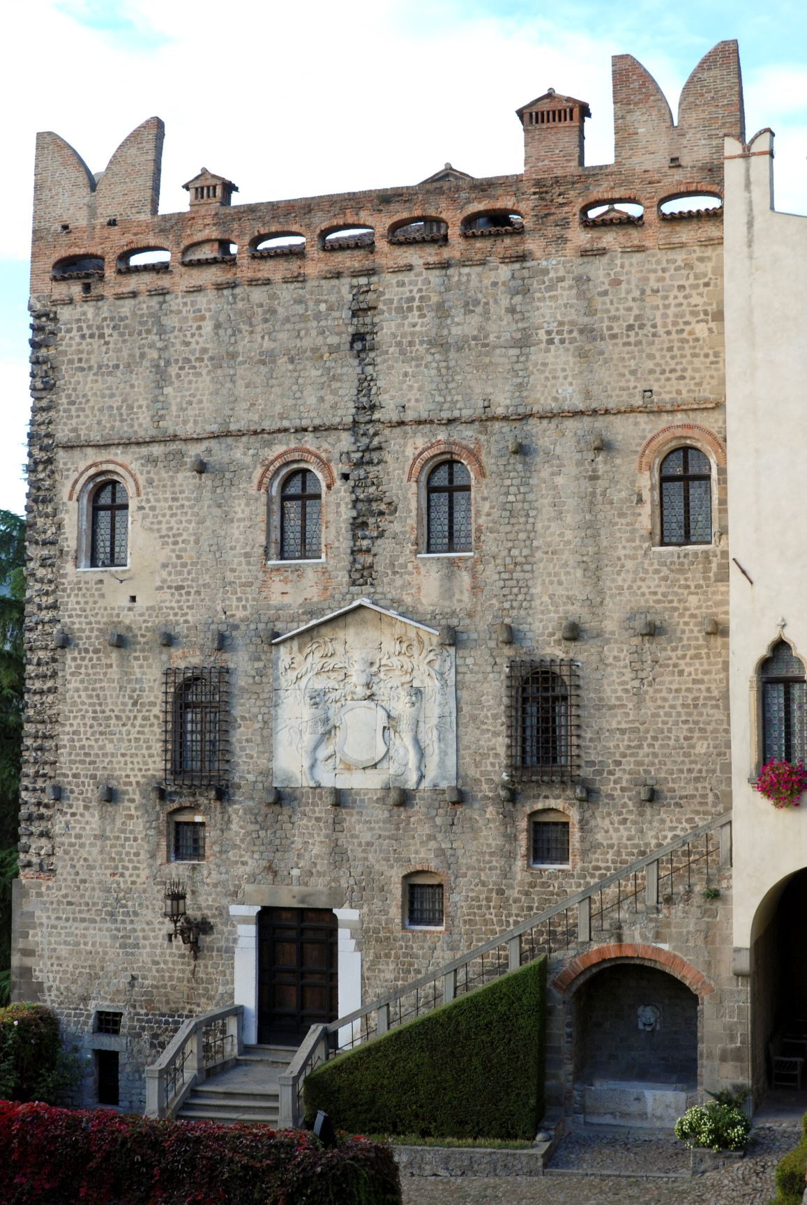 Ezzelinian Tower